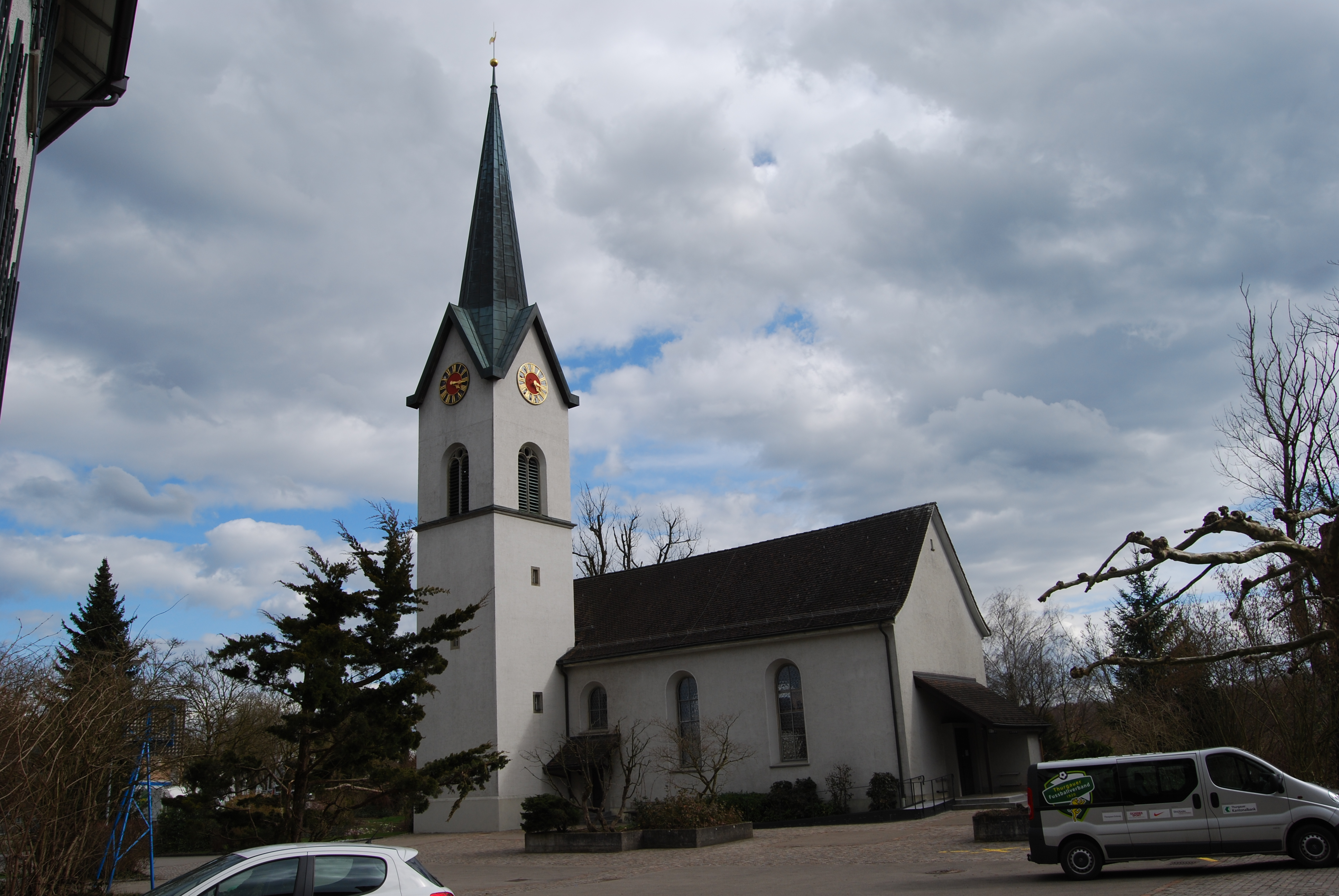 Protestant church of Bürglen, canton of Thurgovia, SwitzerlandEsperanto: Reformita preĝejo de Bürglen, Kantono Turgovio, Svislando